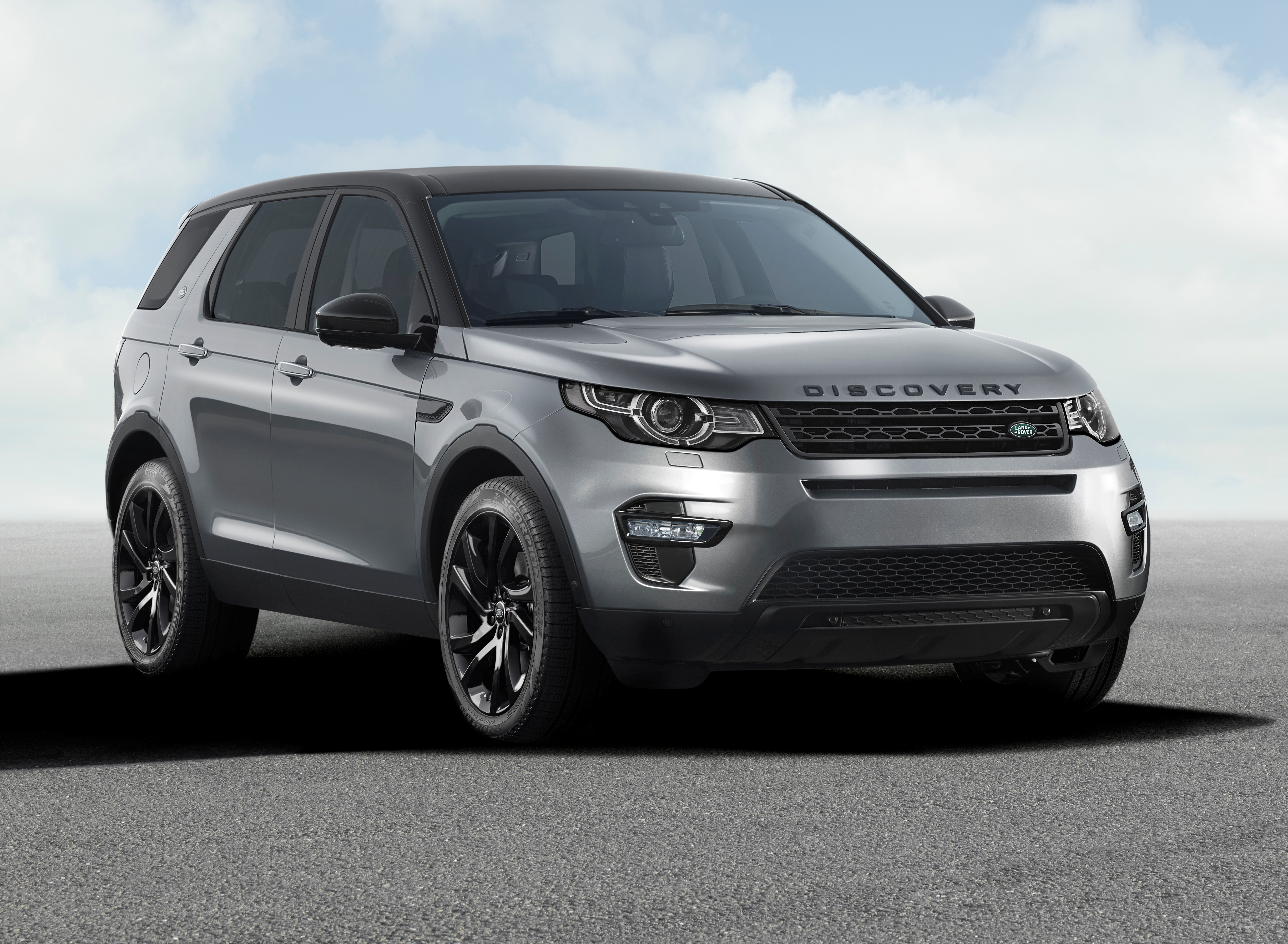 Land Rover has revealed the new Discovery Sport, the world’s most versatile and capable premium compact SUV. The first member of the new Discovery family, Discovery Sport, features 5+2 seating in a footprint no larger than existing 5-seat premium SUVs. Read all about it on